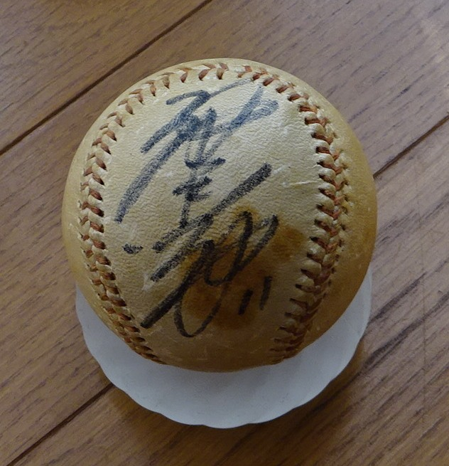 Kojiro Ikegaya Autographed Ball